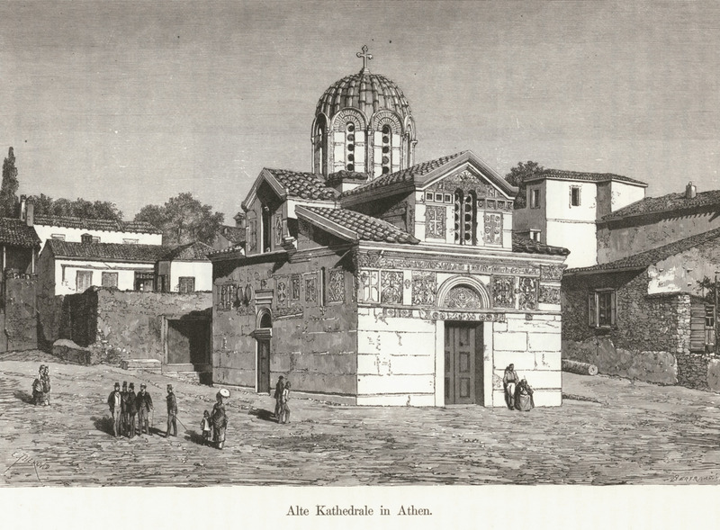 Amand Schweiger von Lerchenfeld. Griechenland in Wort und Bild, Eine Schilderung des hellenischen Konigreiches, Leipzig, Heinrich Schmidt & Carl Günther, 1887